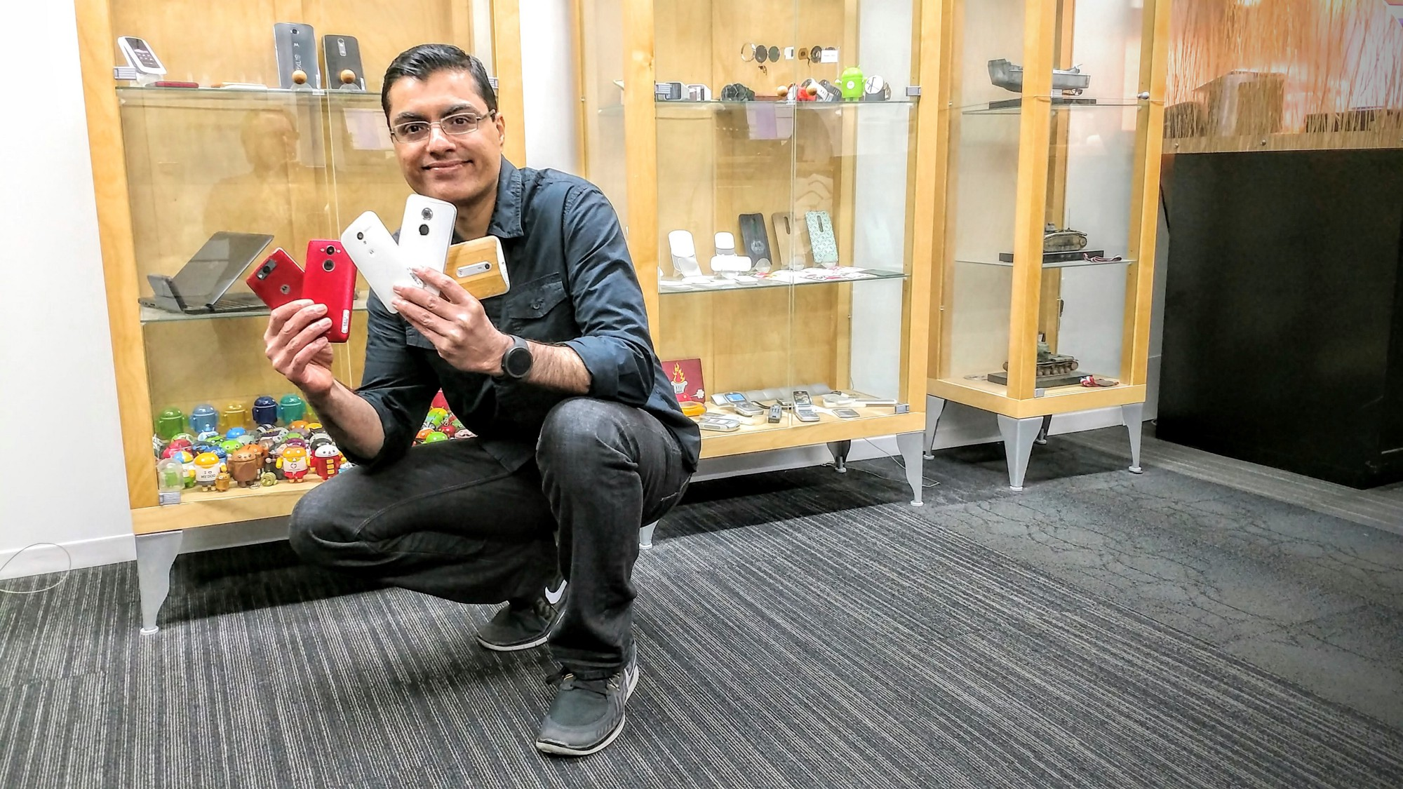 Iqbal Arshad at Motorola Mobility's headquarters at the Merchandise Mart in Chicago, IL